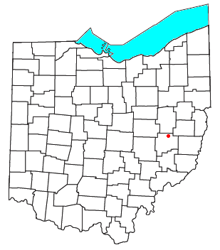 Locator map of the unincorporated community of Birmingham in Guernsey County, Ohio, United States.